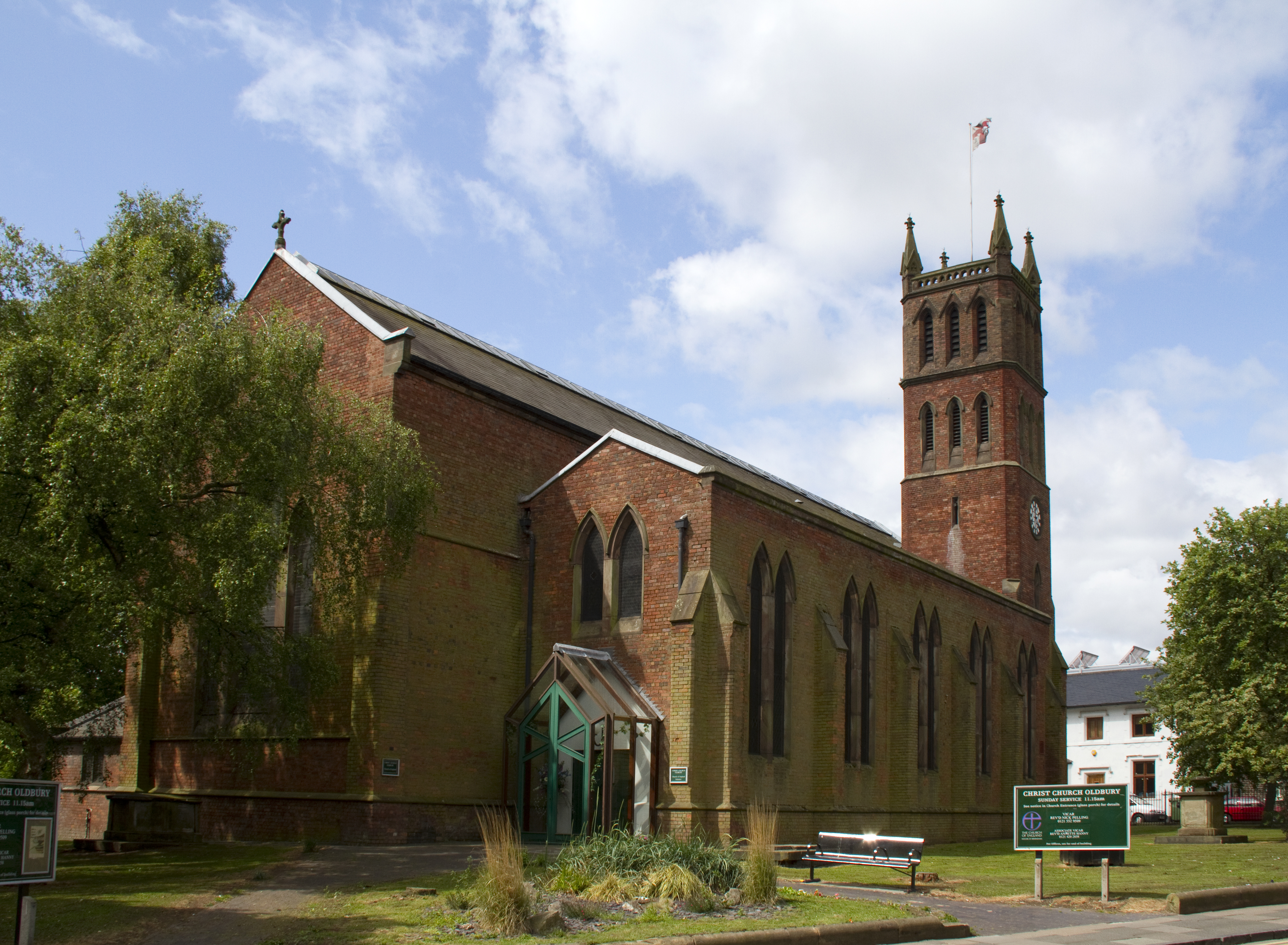 Christ Church Oldbury